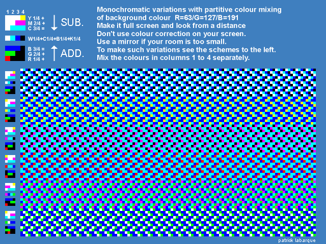 Partitive monochromatic variations of a colour